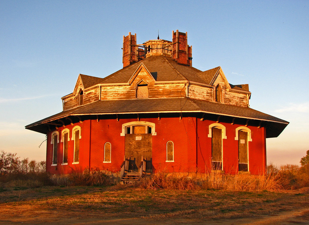 Crites Octagon House, Circleville, Ohio. Driving north from Pike County, Ohio in late afternoon we saw the house in the warm light. My first photo (comment below) was taken on a bleak, cold day back in January 2007. No restoration progress seemed apparent. The house was moved when the new Walmart shopping center was built and restoration is planned. To see the house, you turn right from the north edge of the Walmart parking lot and go east about a half mile to the end of the street Here's an excellent link that even has a location map.